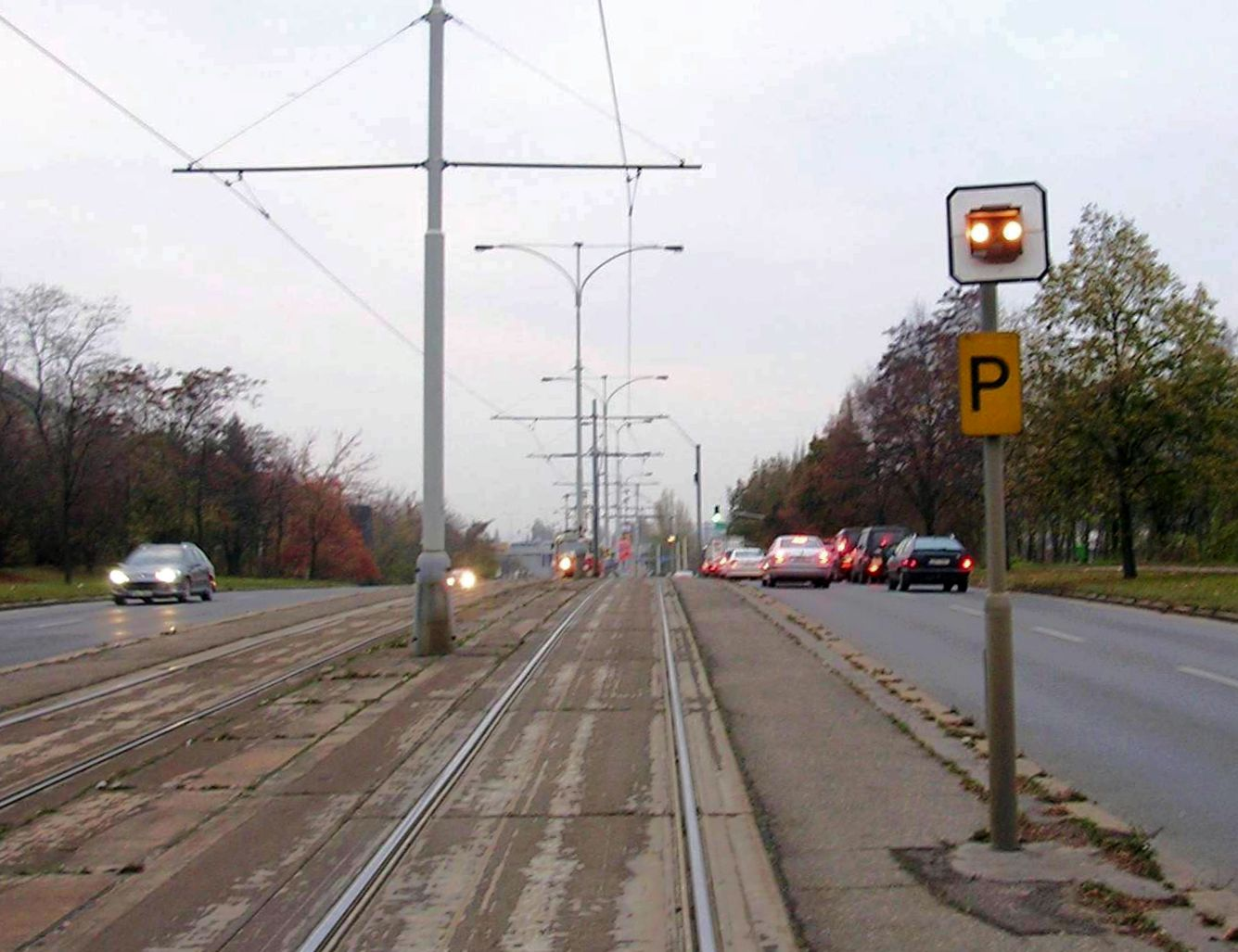 Tram traffic distant signal „Anticipate the Halt!“, Prague.